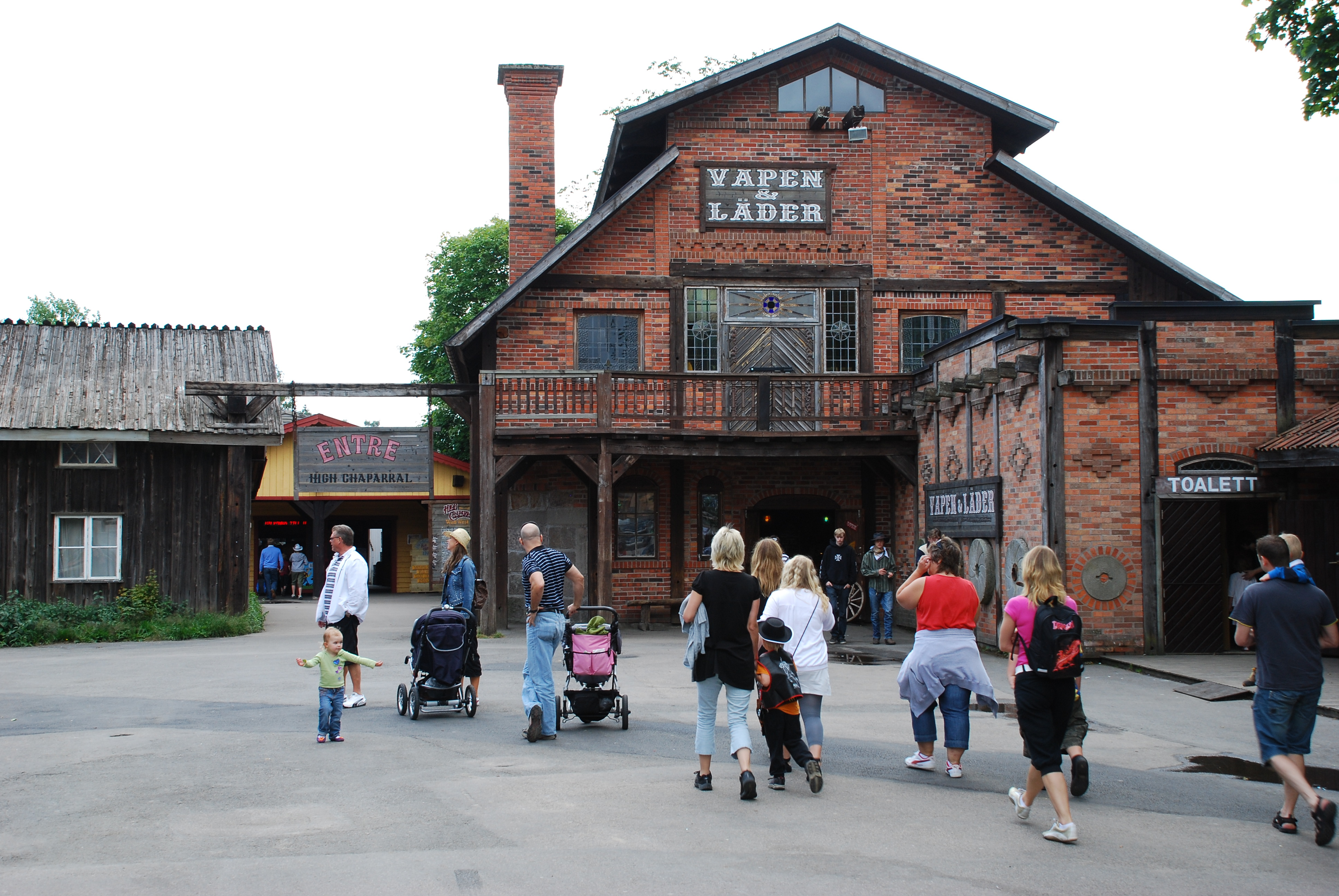 Entrance of High Chaparral (Sweden), a theme park about the Wild West